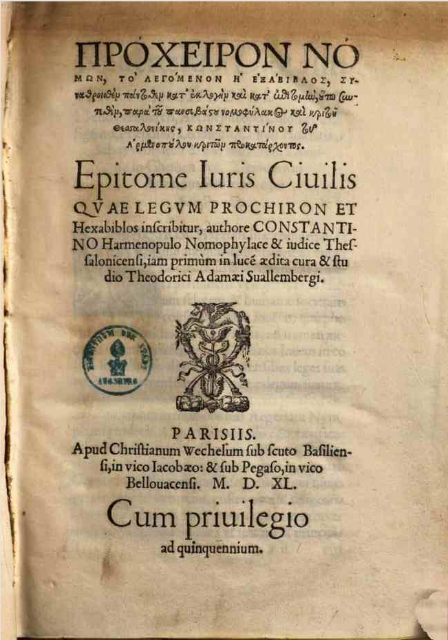 Front page of the first printed version(Paris 1540, Theodor A. Svallemberg) of the Procheiron or Hexabiblos of Constantine Harmenopoulos(1320 - 1380/1385). Hexabiblos was a Byzantine legal treatise of the 14th century, that continued to be widely used in the Balkan lands throughout the later Ottoman Empire's presence. At 1828, it was adopted by the newly founded Greek state as the state's civic code, where it remained so until 1946.